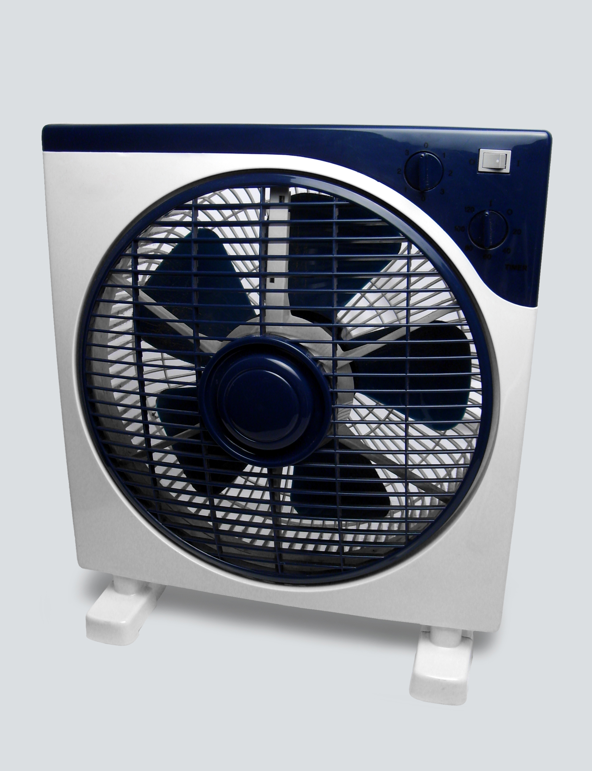 A Garrity brand electric household fan.